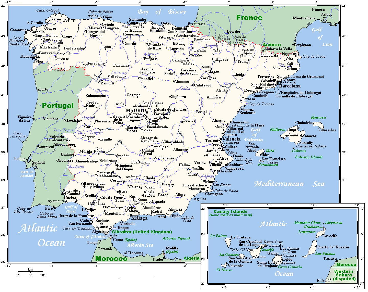 A map showing Spain's cities, main towns, other selected centres, rivers and higher peaks.